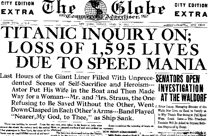 Cover page of the New York Globe from April 18, 1912. Gives details of the Titanic sinking inquiry.